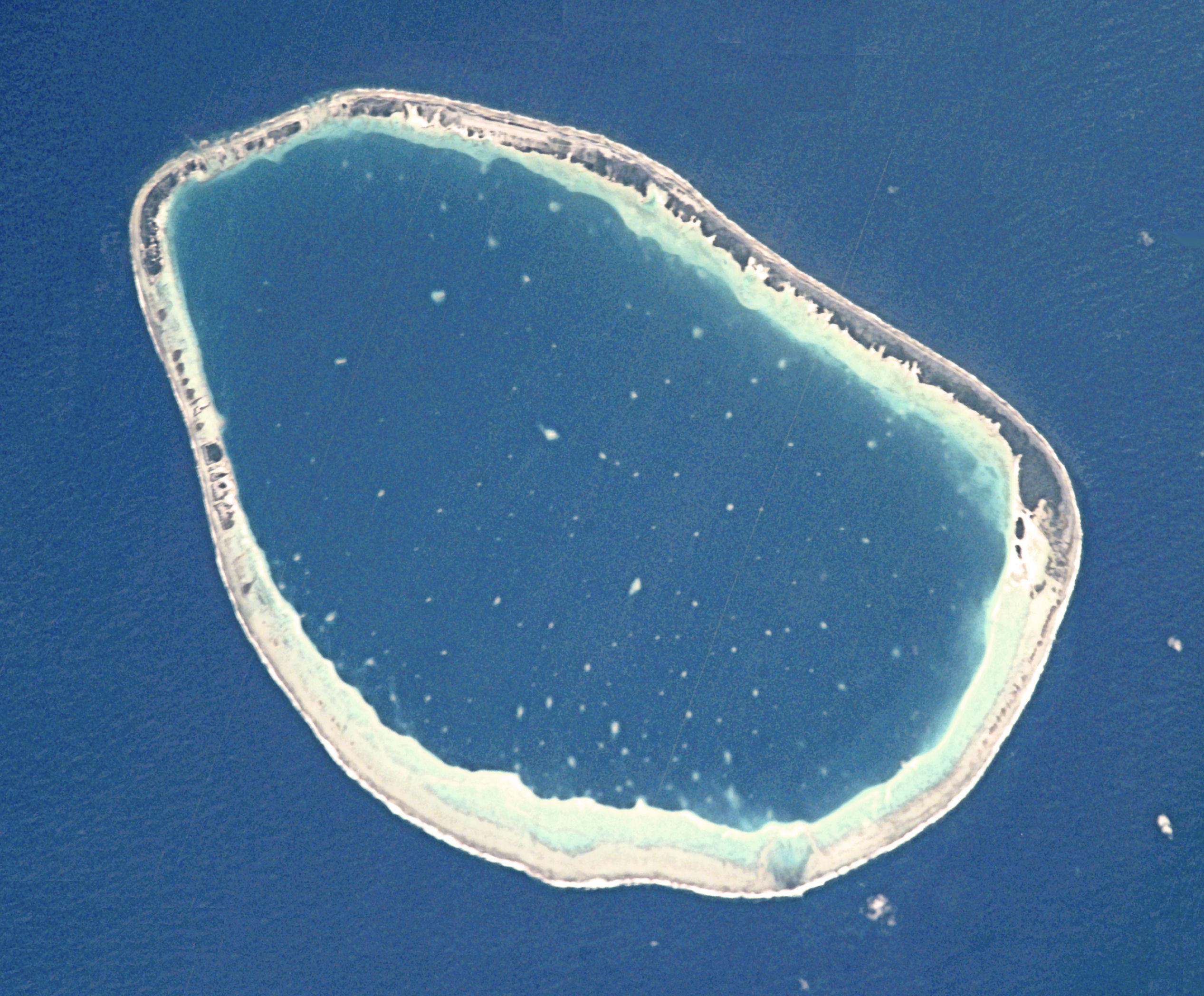 Hikueru Atoll, Tuamotu Archipelago, French Polynesia, from space